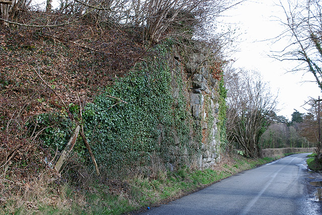 Remains of railway bridge near Trawscoed Once carrying the railway from Aberystwyth to Carmarthen, of which this section started out as the Strata Florida to Aberystwyth branch of the Manchester & Milford railway; as the main line north from Strata Florida station was never built, in practice it became the main line. The bridge was quite high, the railway being carried on a high embankment at this point to ease the gradient between here and Tynygraig to the south.